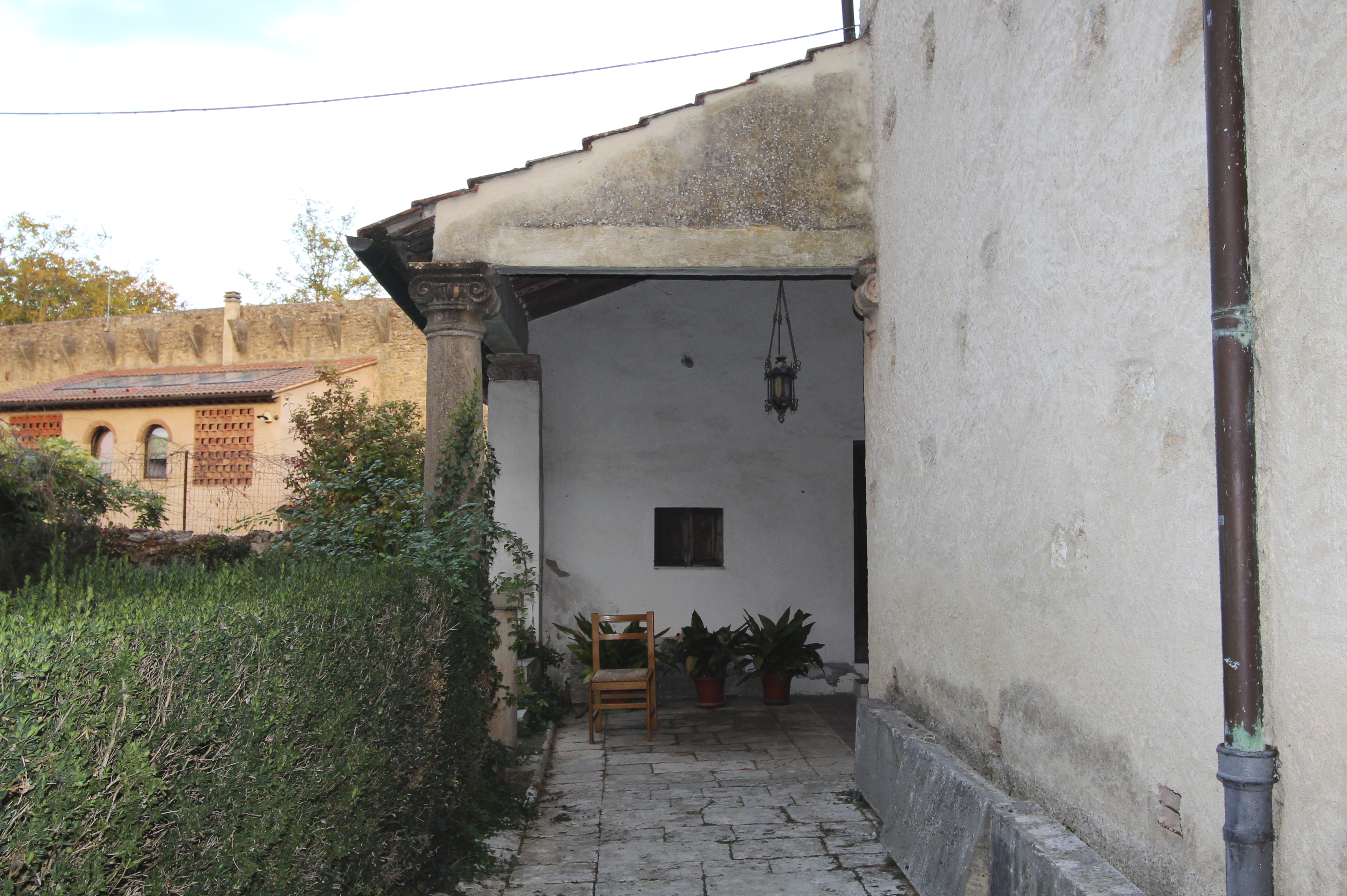 Church Chiesa della Misericordia, Via Borgo Vecchio, Staggia Senese, hamlet of Poggibonsi, Province of Siena, Tuscany, Italy